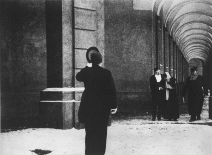 Scene from the 1903 silent film Henrettelsen (Capital Execution) made by Peter Elfelt